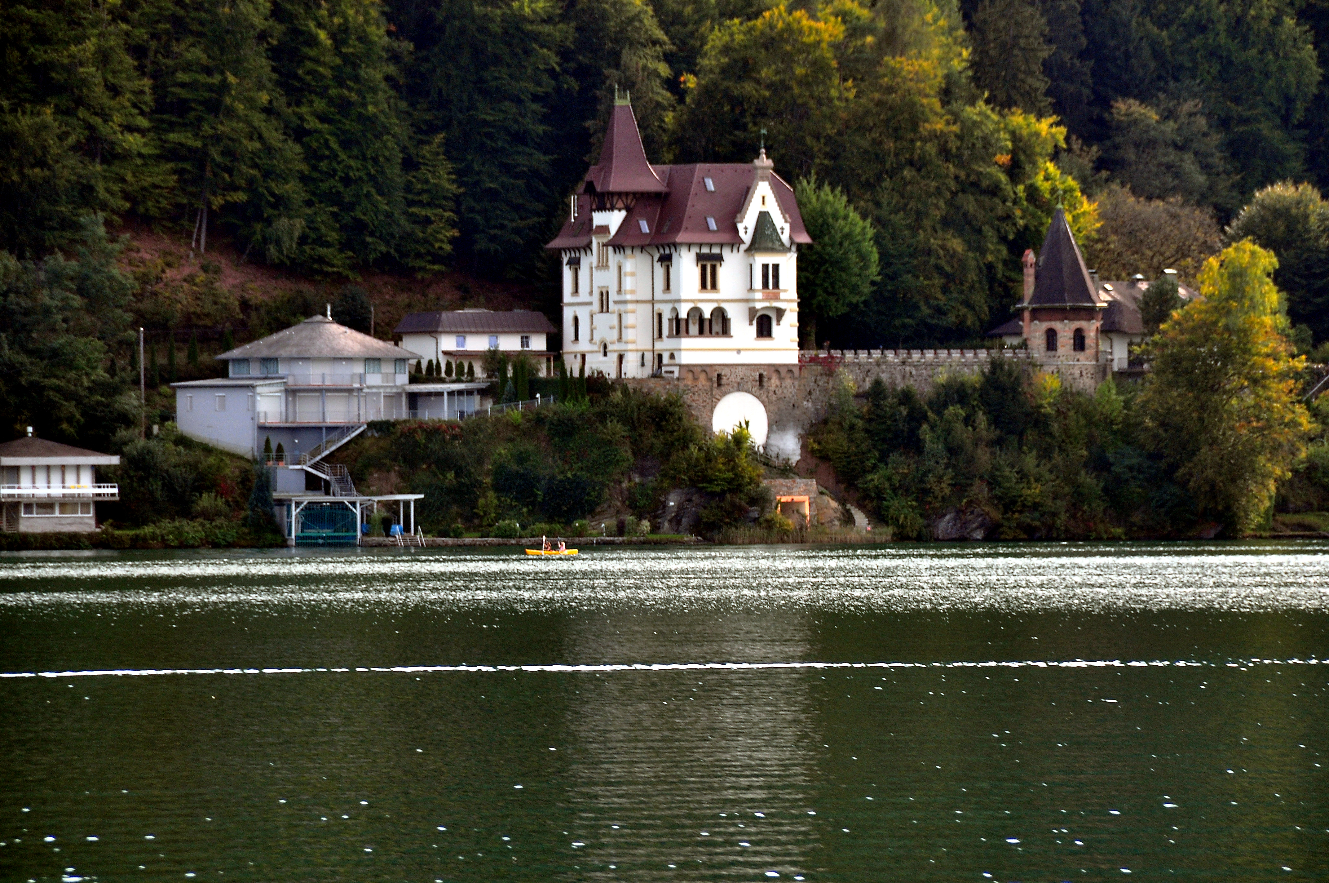 Villa Schwarzenfels on Wörthersee-Süduferstrasse #18 in Maiernigg, municipality Maria Wörth, district Klagenfurt Land, Carinthia, Austria, EU